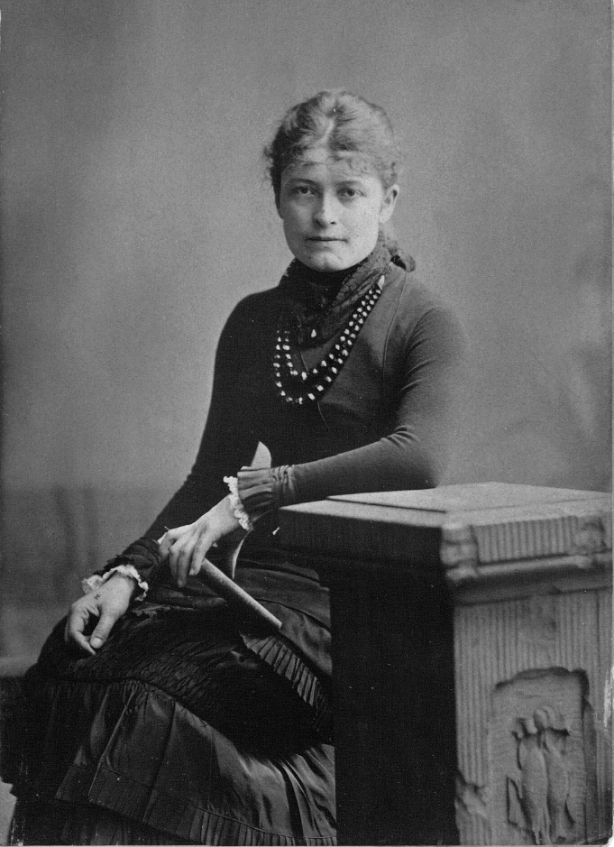 Bertha Wegmann